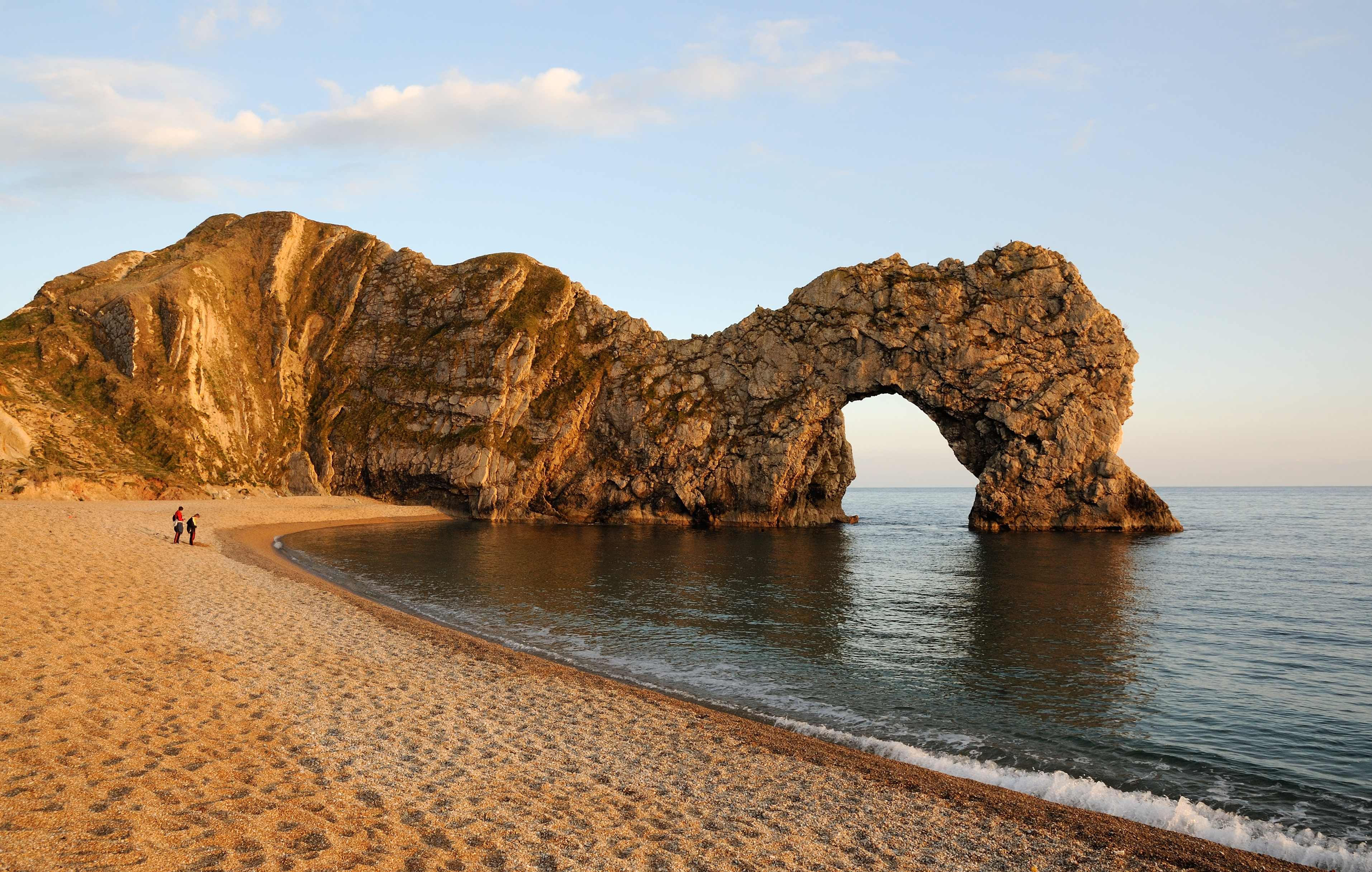 Durdle Door is a natural limestone arch on the Jurassic Coast near Lulworth in Dorset, England.